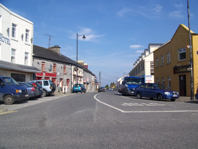 Oughterard/Uachtar Ard, near to Oughterard, Galway, Ireland. Oughterard is a charming old-world little town, the largest on the western side of Lough Corrib, lies a mile back from the shore.